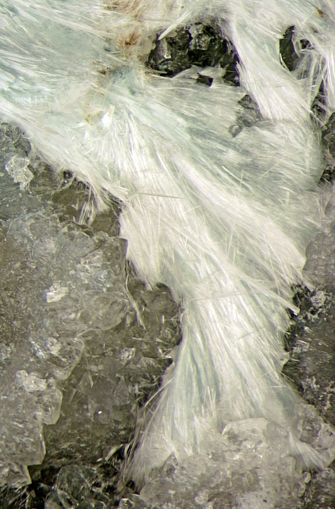 Makatite Locality: Demix-Varennes quarry, Saint-Amable sill, Varennes & St-Amable, Lajemmerais RCM, Montérégie, Québec, Canada FOV 4.5 x 6.8 mm. Found Sept 2000. MOB coll. This is a close-up of a specimen from the same finds as File:Makatite-164563.jpg and File:Makatite, Zakharovite, Natrolite-255464.jpg In this case the makatite is almost entirely fibrous. But it does have a hint of the “sea-green” color seen in some of the larger blades of the other specimens. I posted it to show that makatite can look very similar to fibrous pectolite. Pectolite is actually rare at STA. But almost every “makatite” specimen that I have seen from MSH is actually pectolite. The ones from igneous breccia are particularly insidious. But if your “makatite” isn't from a sodalite xenolith or marble xenolith, it's probably not makatite. (Makatite sometimes fluoresces greenish SW; pectolite pink/violet best LW.) This specimen is from a hydrothermalite and was associated with varennesite, zakharovite, yofortierite, eudialyte, natrolite and sphalerite.